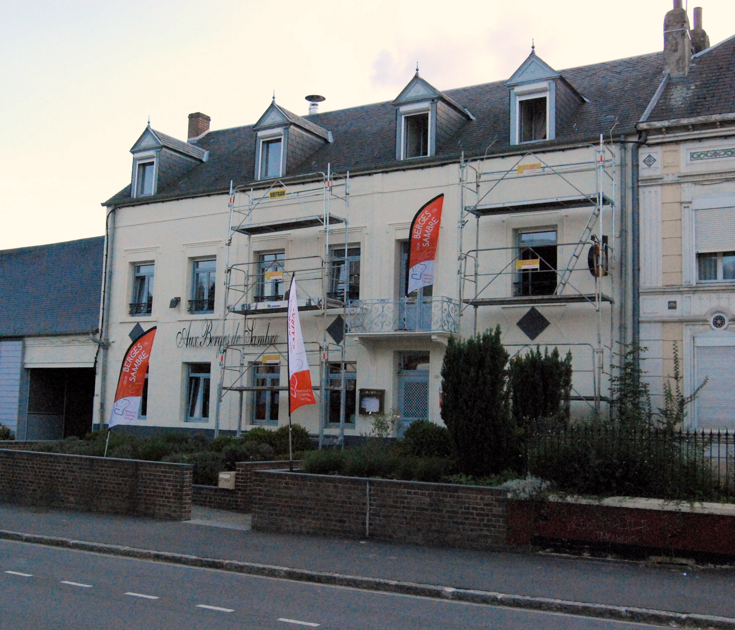 Birthplace of the french painter Félix Del Marle. Currently a restaurant. Site : Pont-sur-Sambre, Nord, France